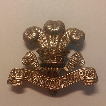 Photo of 3rd Dragoon Guards Cap Badge from personal collection